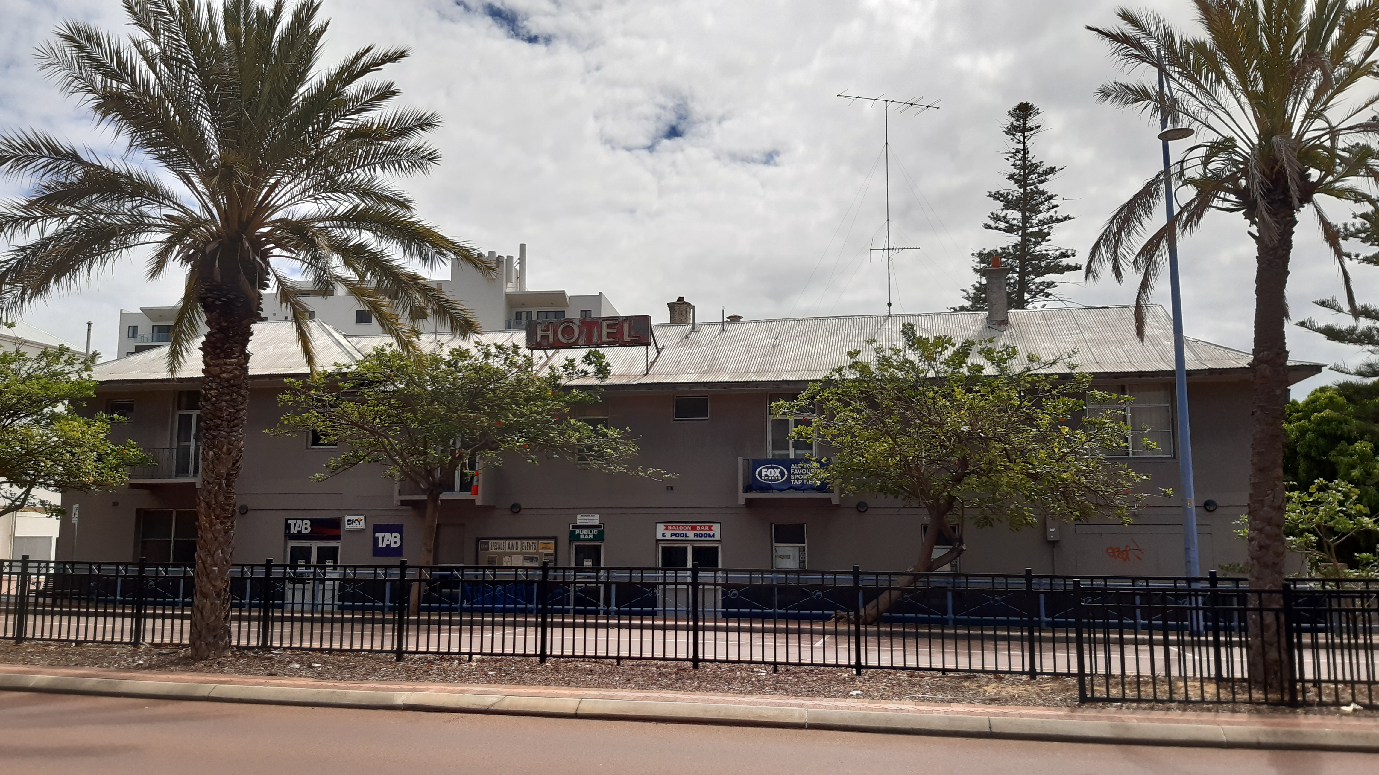 The Rockingham Hotel, Western Australia, seen from Kent Street. The hotel was closed because of government regulations in regards to the Coronavirus outbreak.